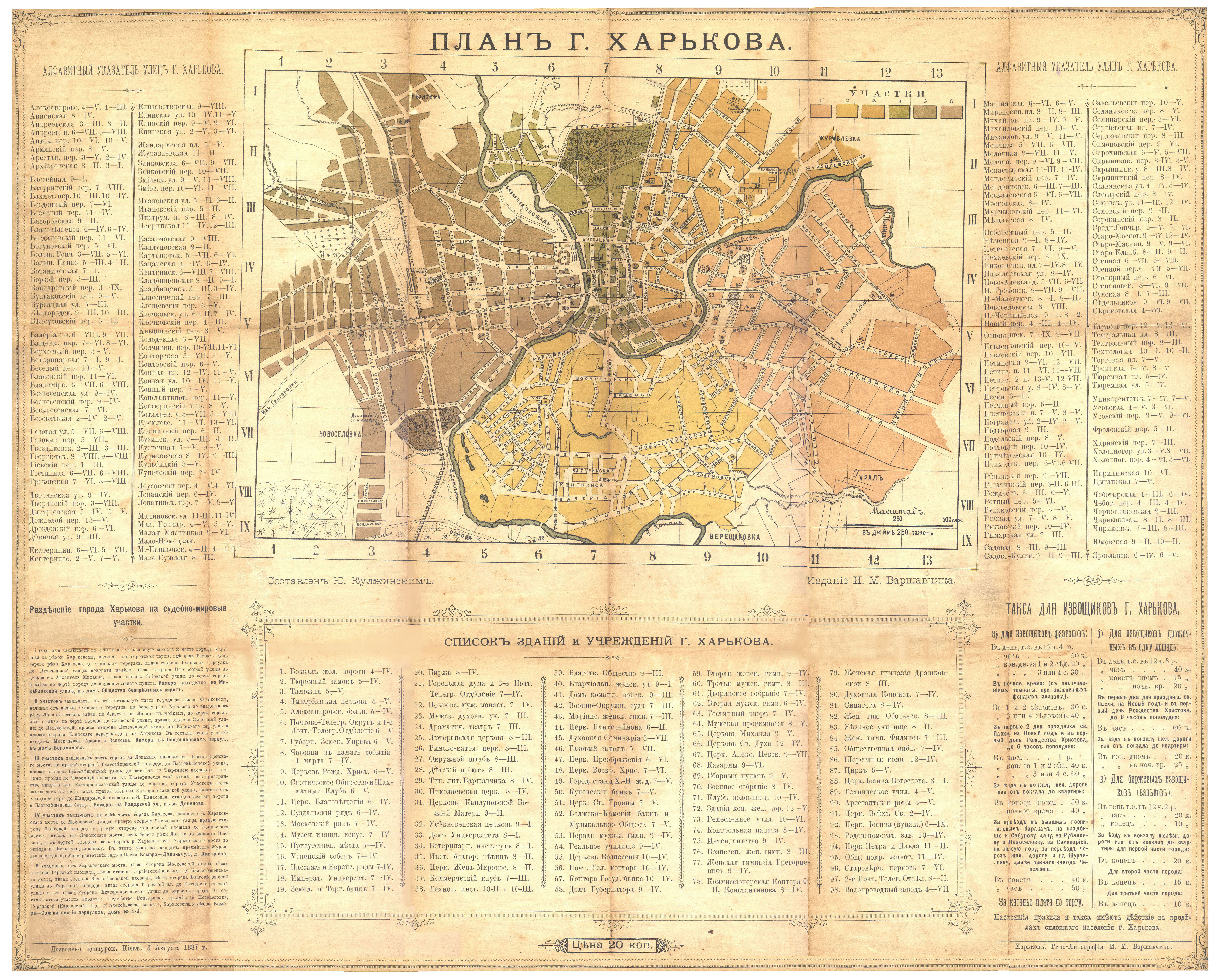 Map of Kharkov